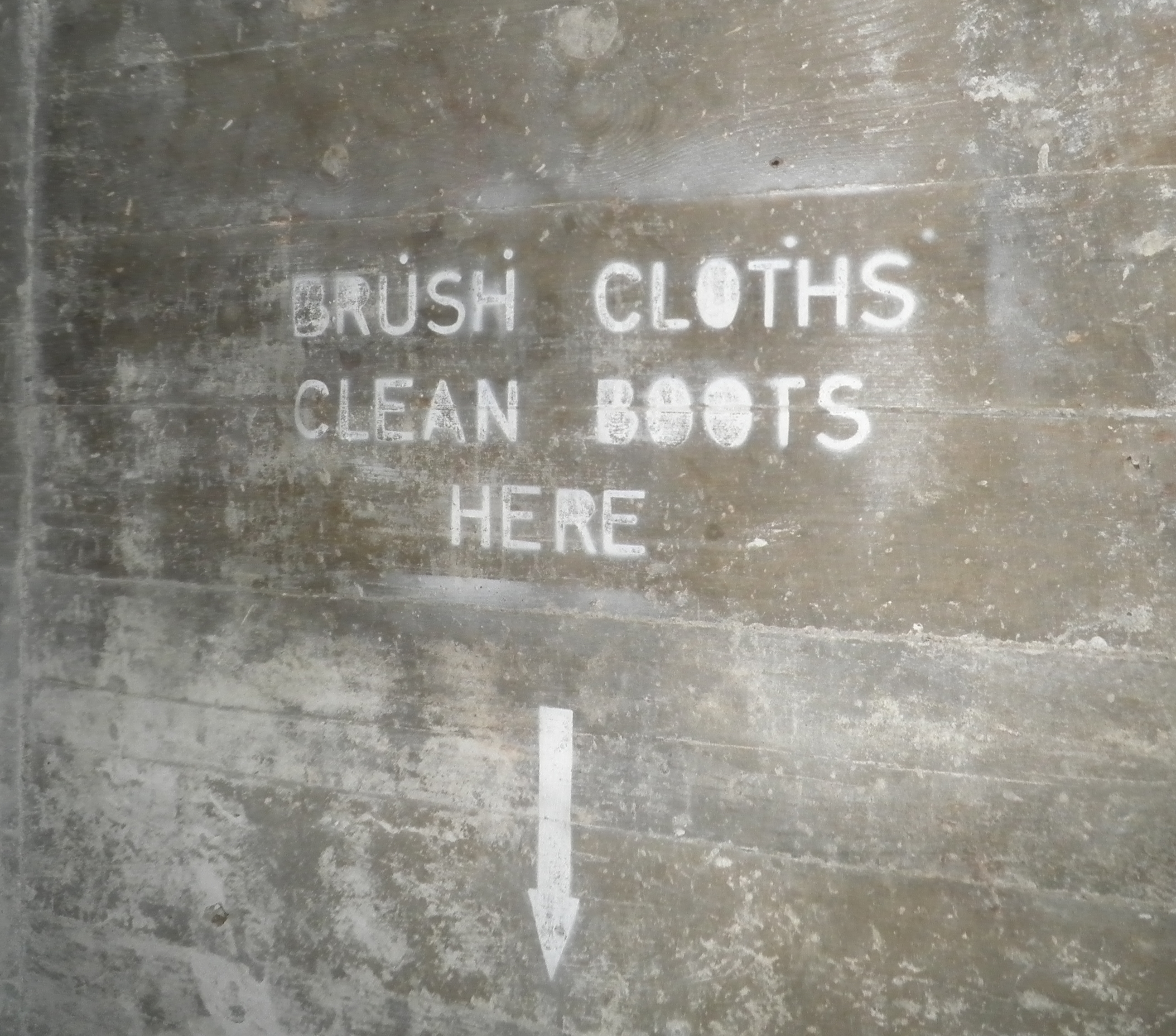 NATO headquarters Cannerberg - Disinfection - Sign 'Brush cloths - clean boots - here'